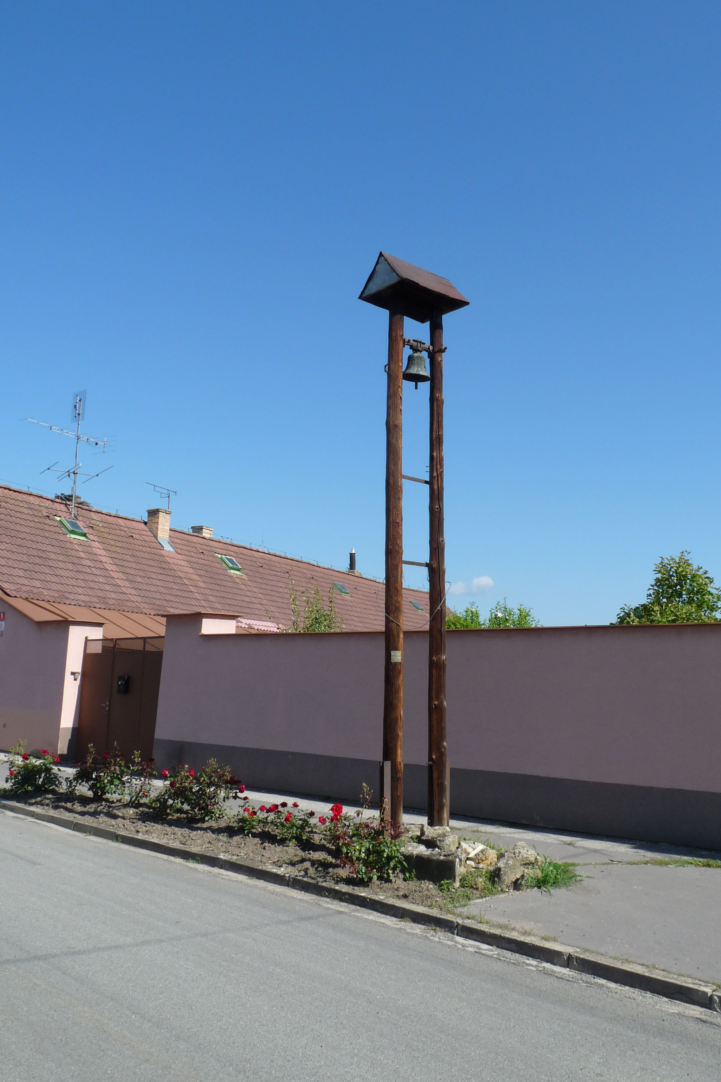 Wooden bell tower in K Rybníku street, Nemanice, part of České Budějovice, Czech Republic.